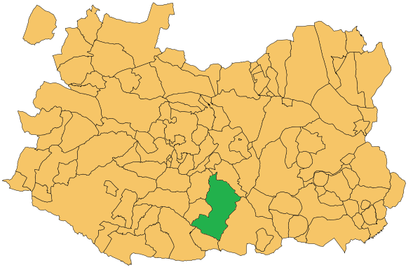 Calzada de Calatrava